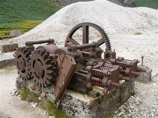 Remains of an ore crusher in the Miner's Village at Glendalough, Wicklow, Ireland